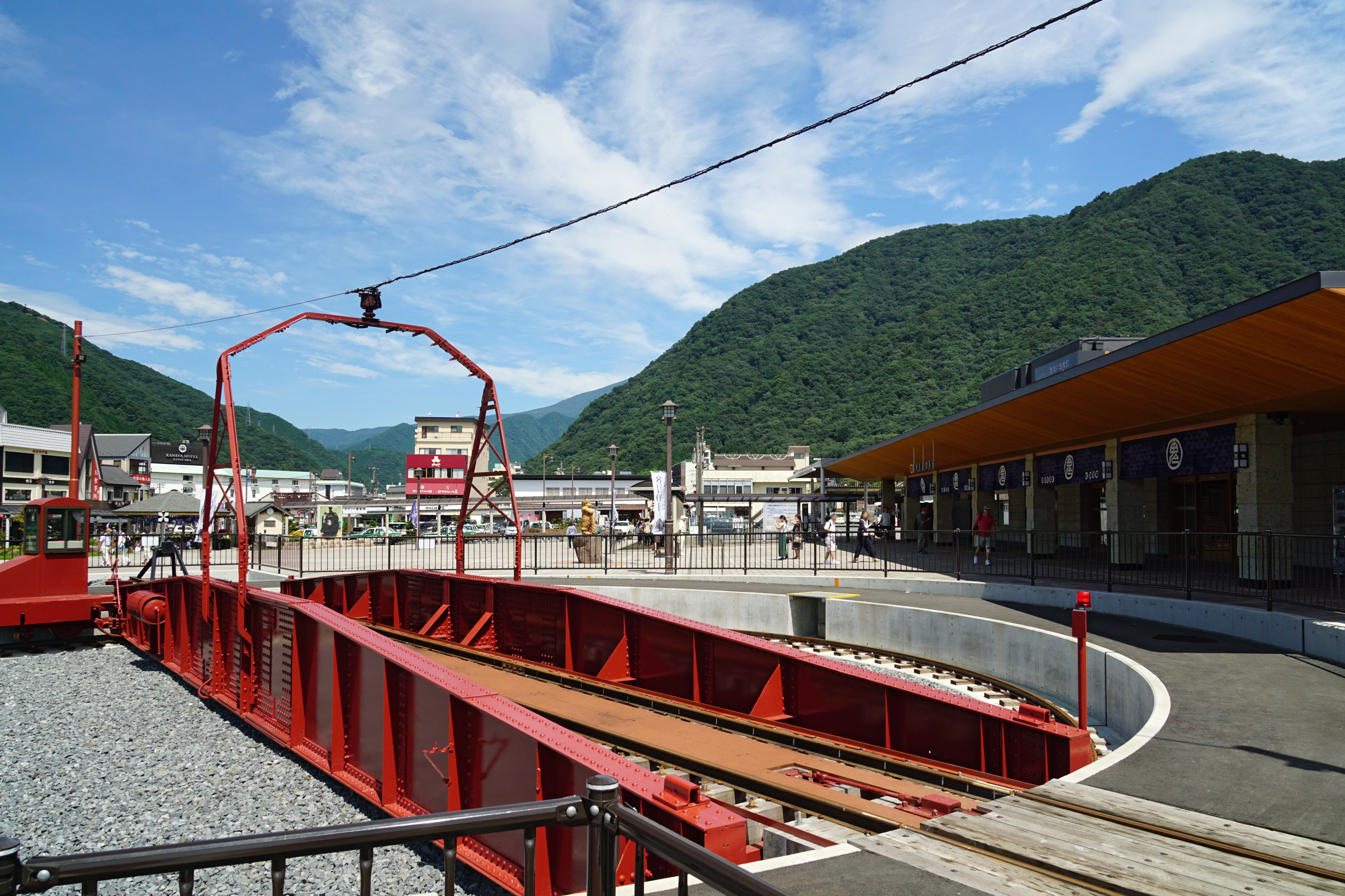 Kinugawa-Onsen Station in Nikko, Tochigi prefecture, Japan